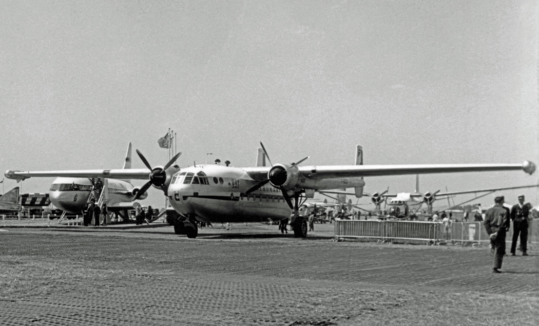 Nord 2502 Noratlas F-BGZA of Aeromaritime/UAT with wingtip Turbomeca Marbore auxiliary jets at the 1957 Paris Air Show.